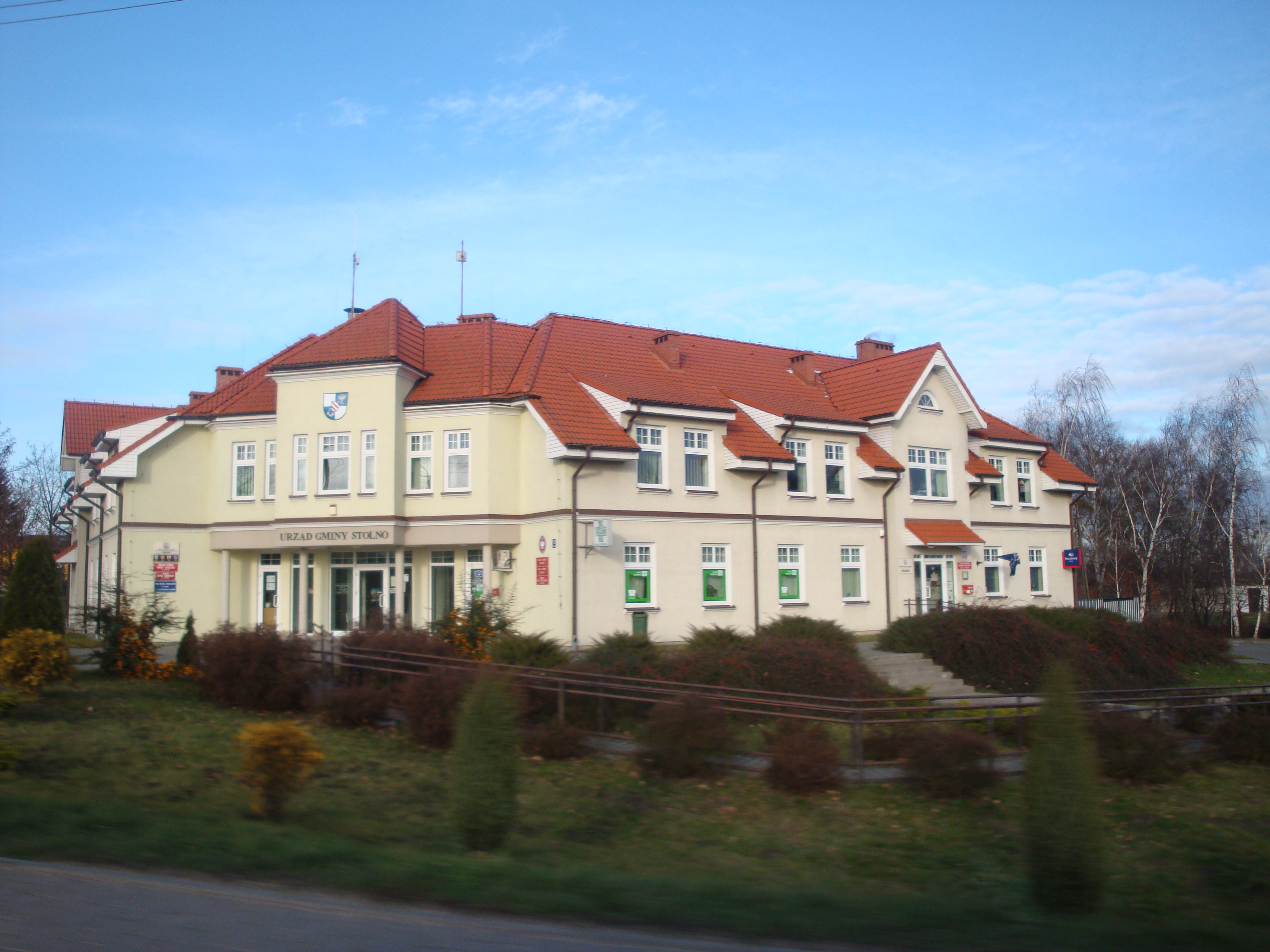 County office building (Urząd Gminy)in Stolno, Poland